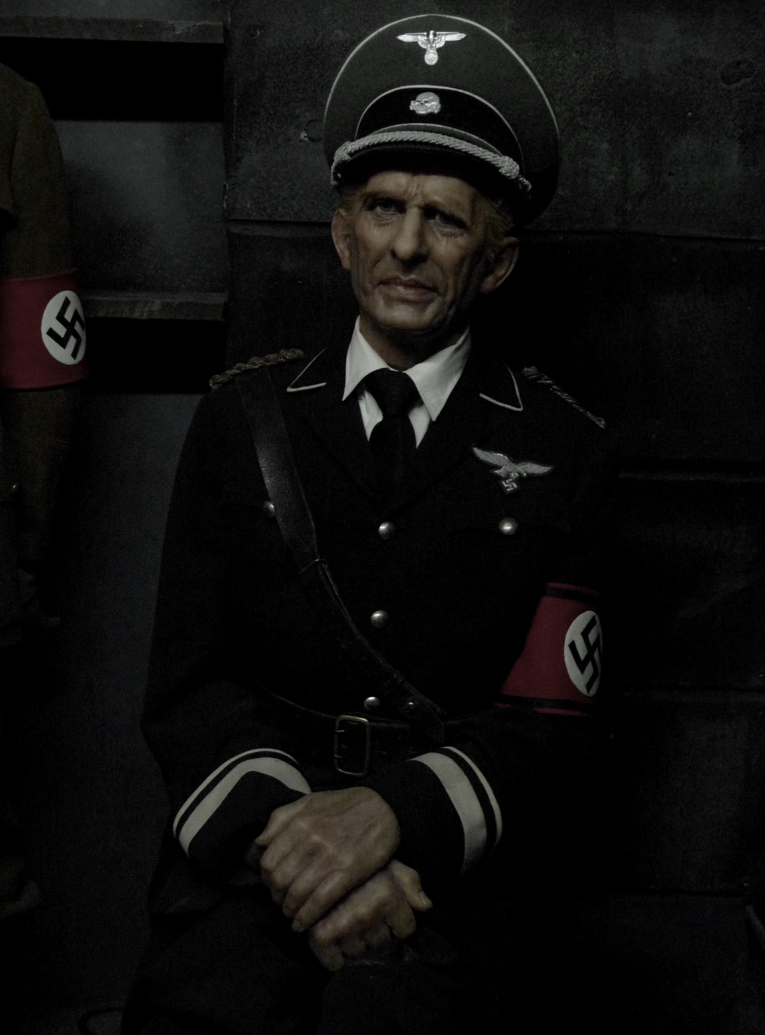 Royal London Wax Museum - Adolf Eichmann Royal London Wax Museum, Victoria, British Columbia, Canada